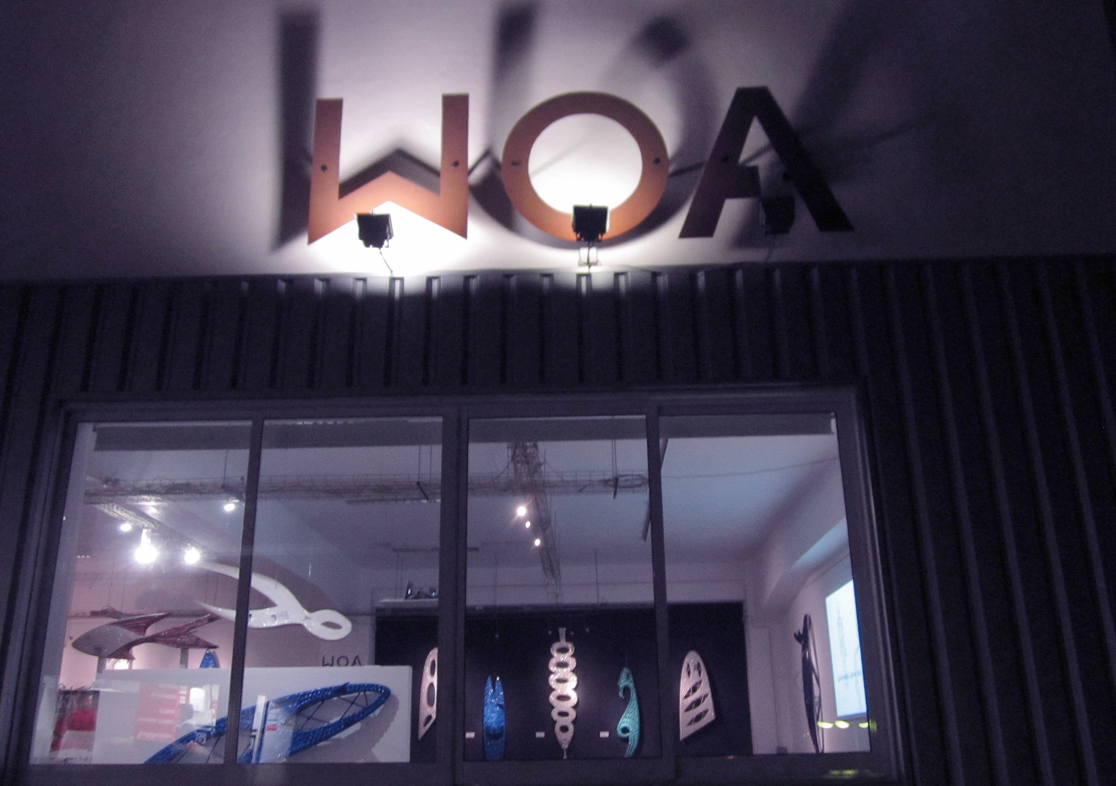 Privately-owned contemporary art museum, WOA - Way Of Arts, located in Alcabideche (near Cascais, Portugal). The museum was founded by Lisbon art dealer Gonçalo Leandro and host visual arts as well as dance and music performances.